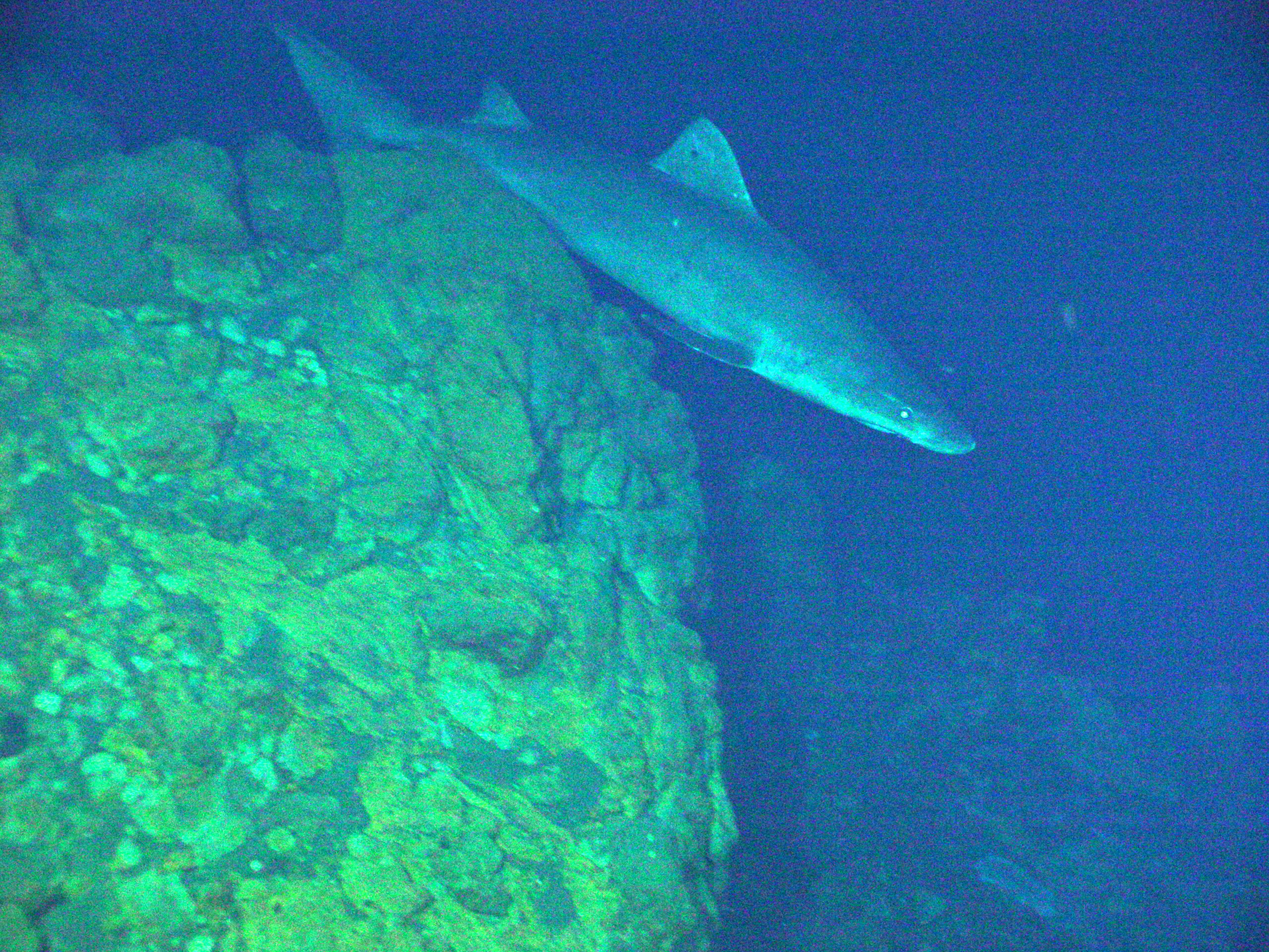 Pacific Ring of Fire Expedition. A rare sight at hydrothermal systems, this shark (~ 1.5 meters long, 5 ft), surprised us at Kasuga-2. Mariana Arc region, Western Pacific Ocean.